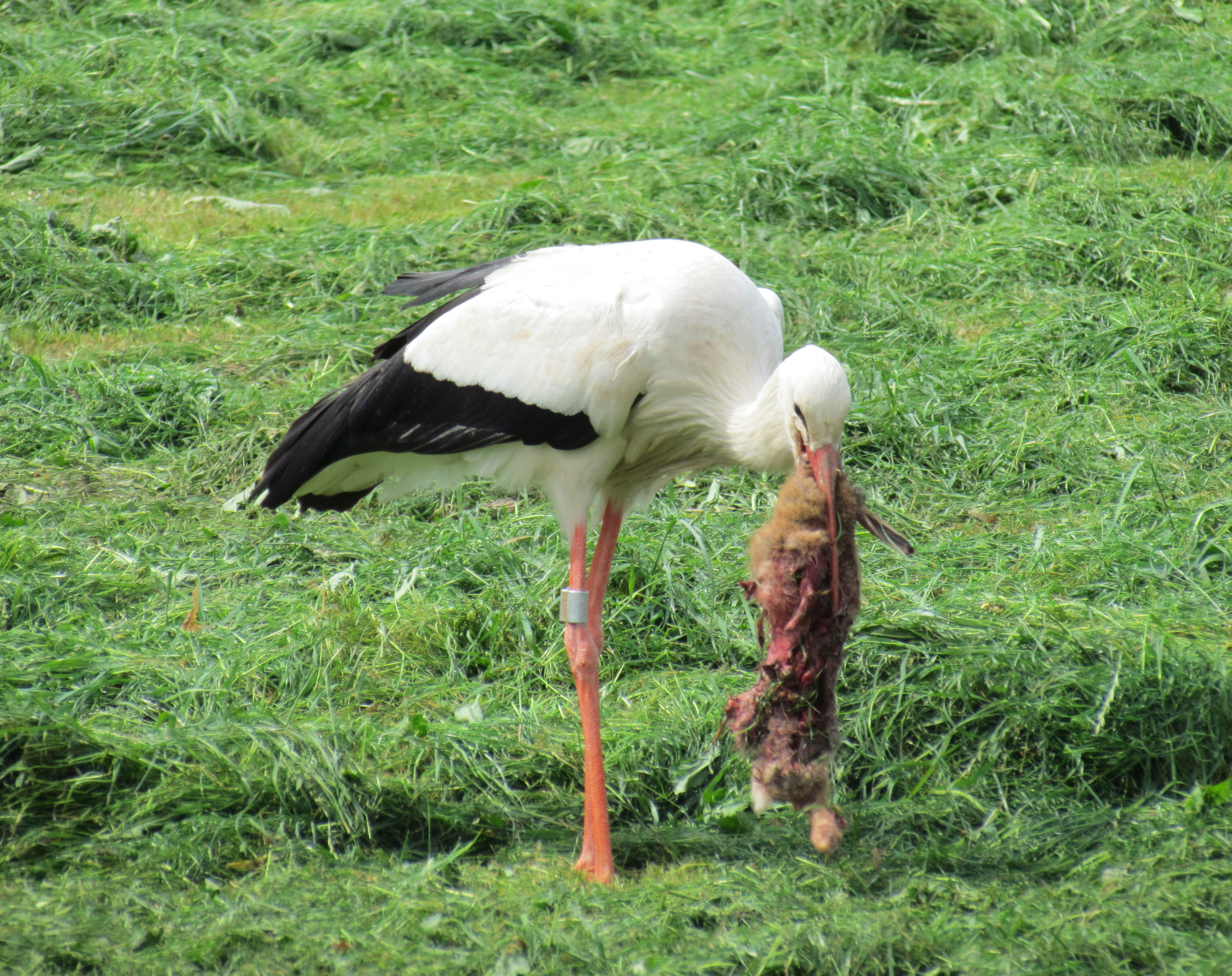 White stork picking at a dead young rabbit. Nijenbeker Klei near Voorst, NL